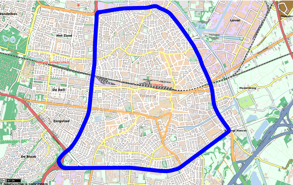 Modified openstreetmap map with medium Ring road of tilburg highlighted